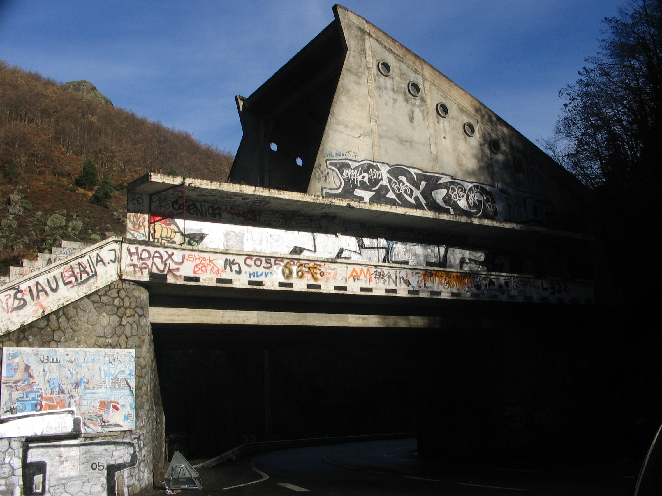 Abandoned cableway station in Ax 3 Domaines